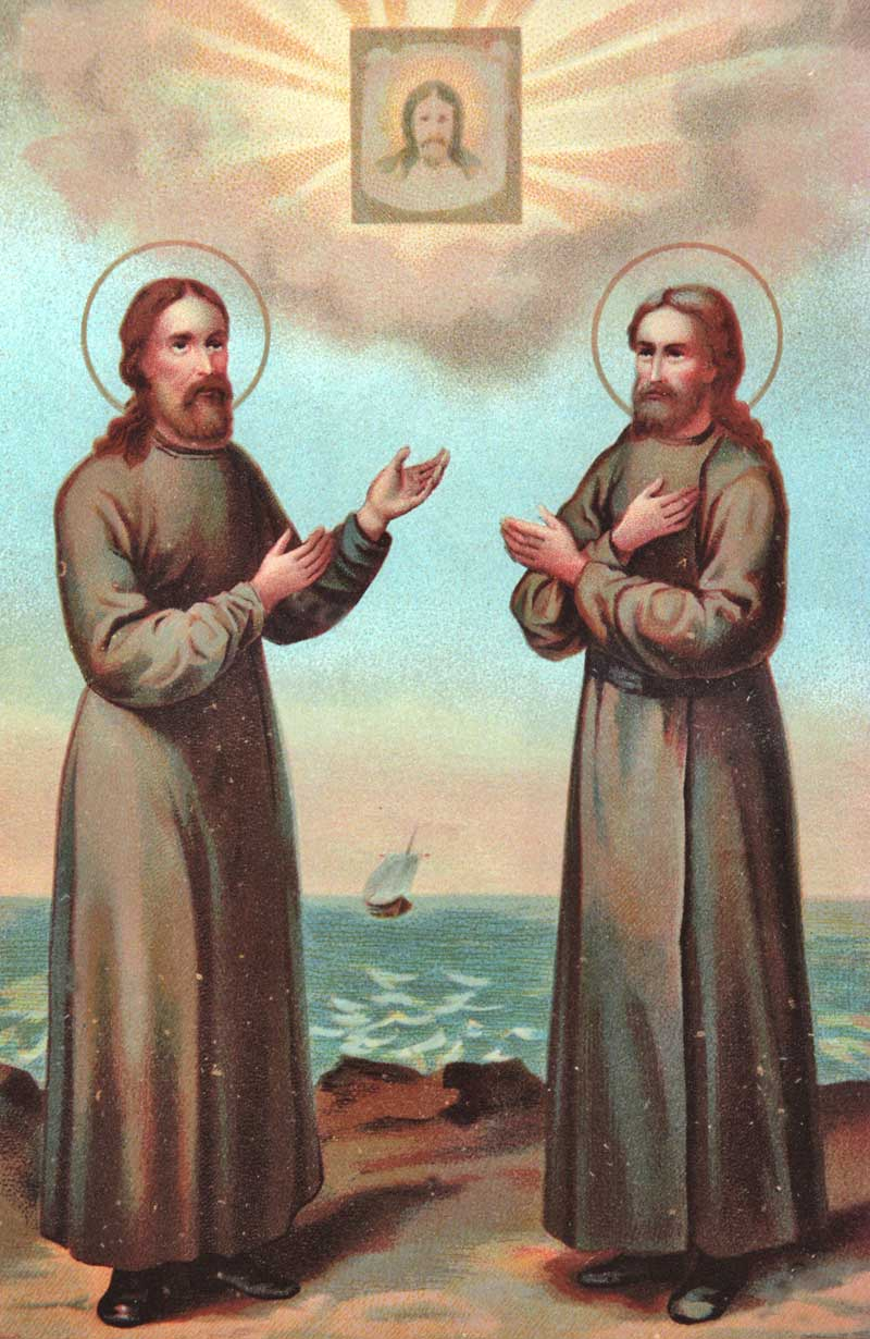 St. John and Longin of Jarenga